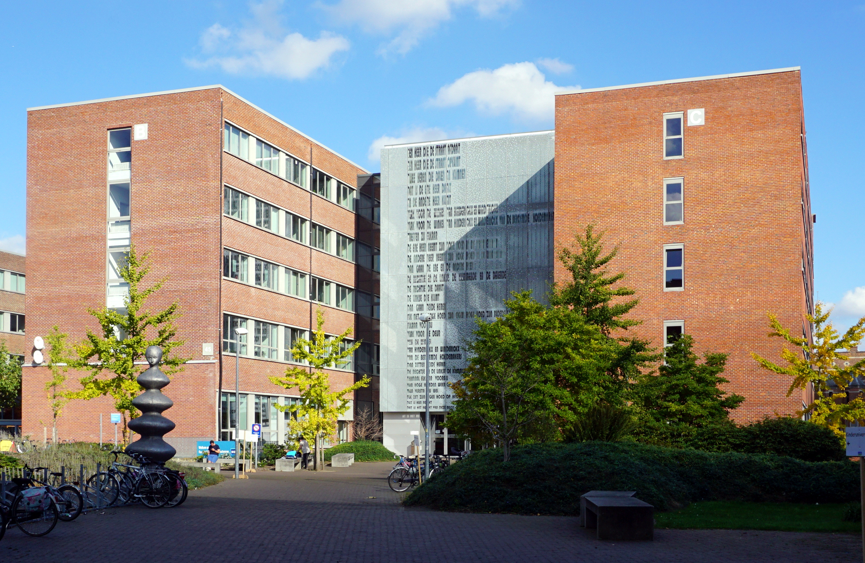 Faculty of Social Sciences, KU Leuven (Parkstraat 45, 3000 Leuven, Belgium)